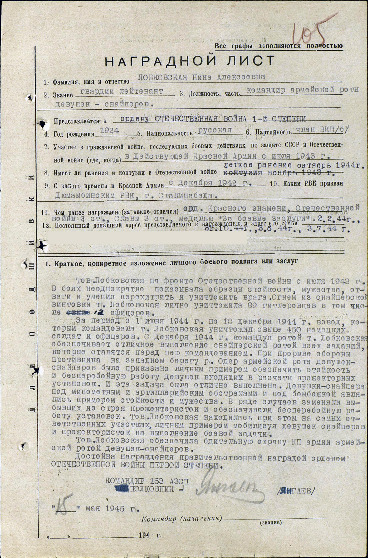 Commendation list of Nina Lobkovskaya for her 1st class Order of the Patriotic War.